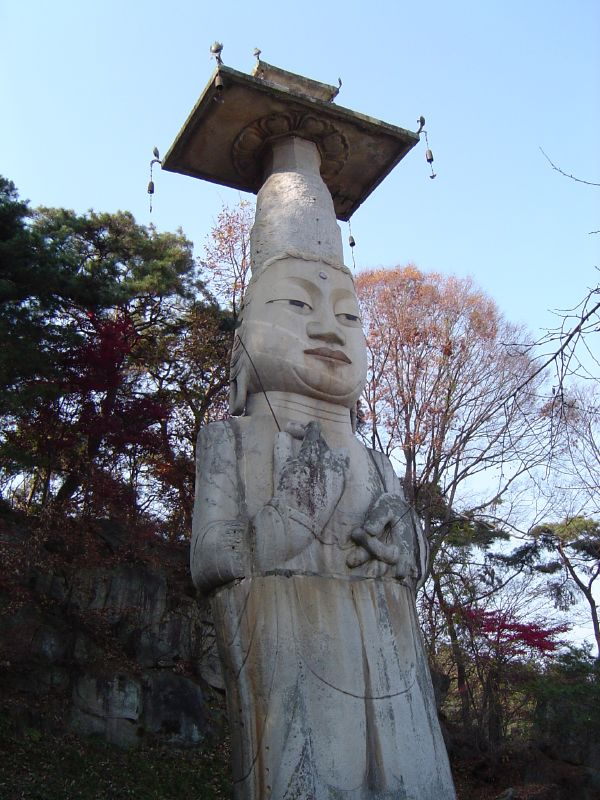 Stone Mireuk Buddha, Goryeo dynasty. South Korea